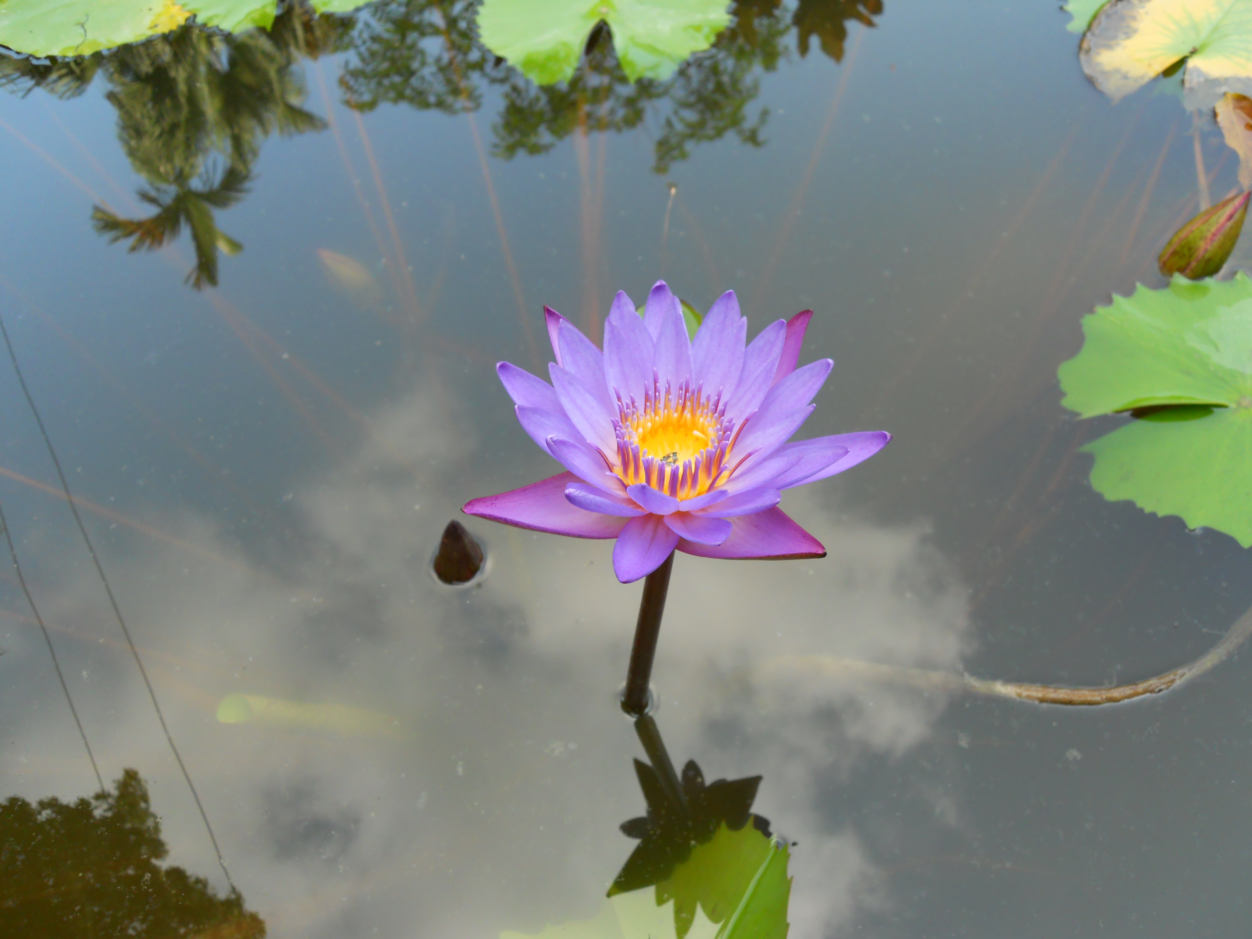 Water lily